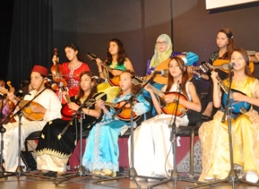 الطرب الغرناطي الأندلسي المغربي This is an image from Morocco